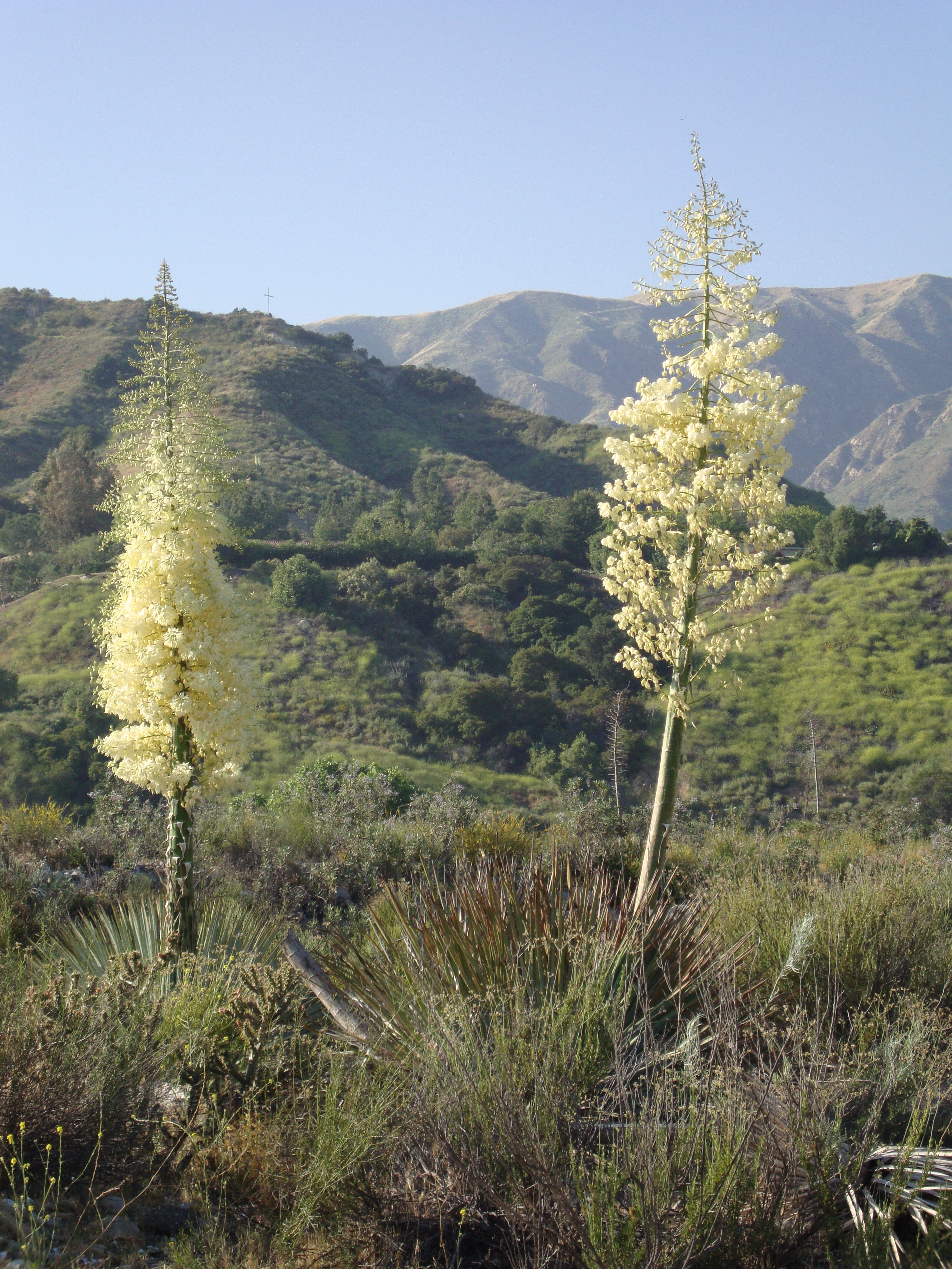 Blossoms of Chaparral Yucca (Hesperoyucca whipplei). Located in Big Tujunga Canyon near the stream's wash - in California chaparral habitat. Taken near Sunland, Southern California.